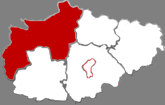 Location of Qinshui county in Jincheng City, China